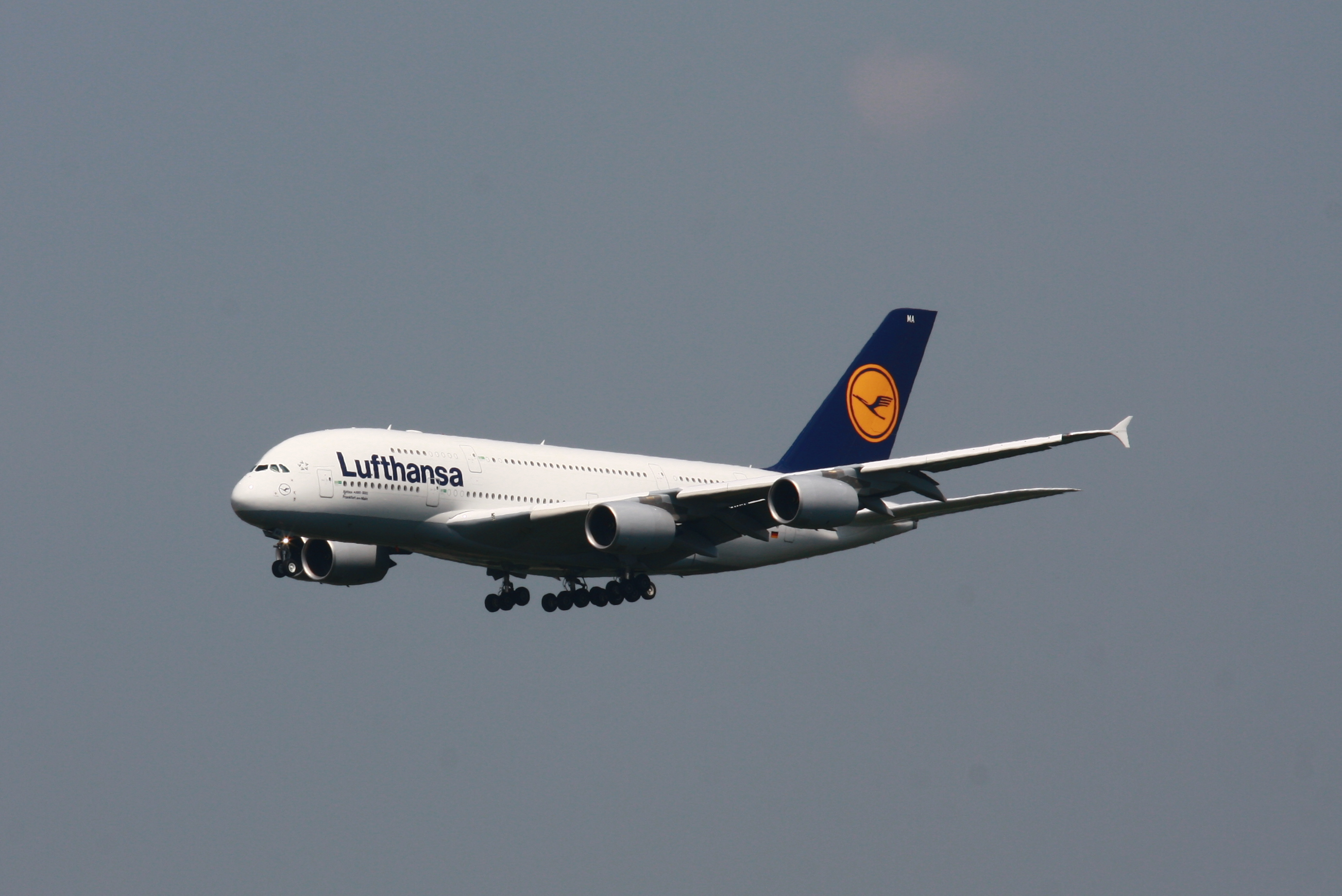 Lufthansa's first Airbus A380 landing at Frankfurt Airport